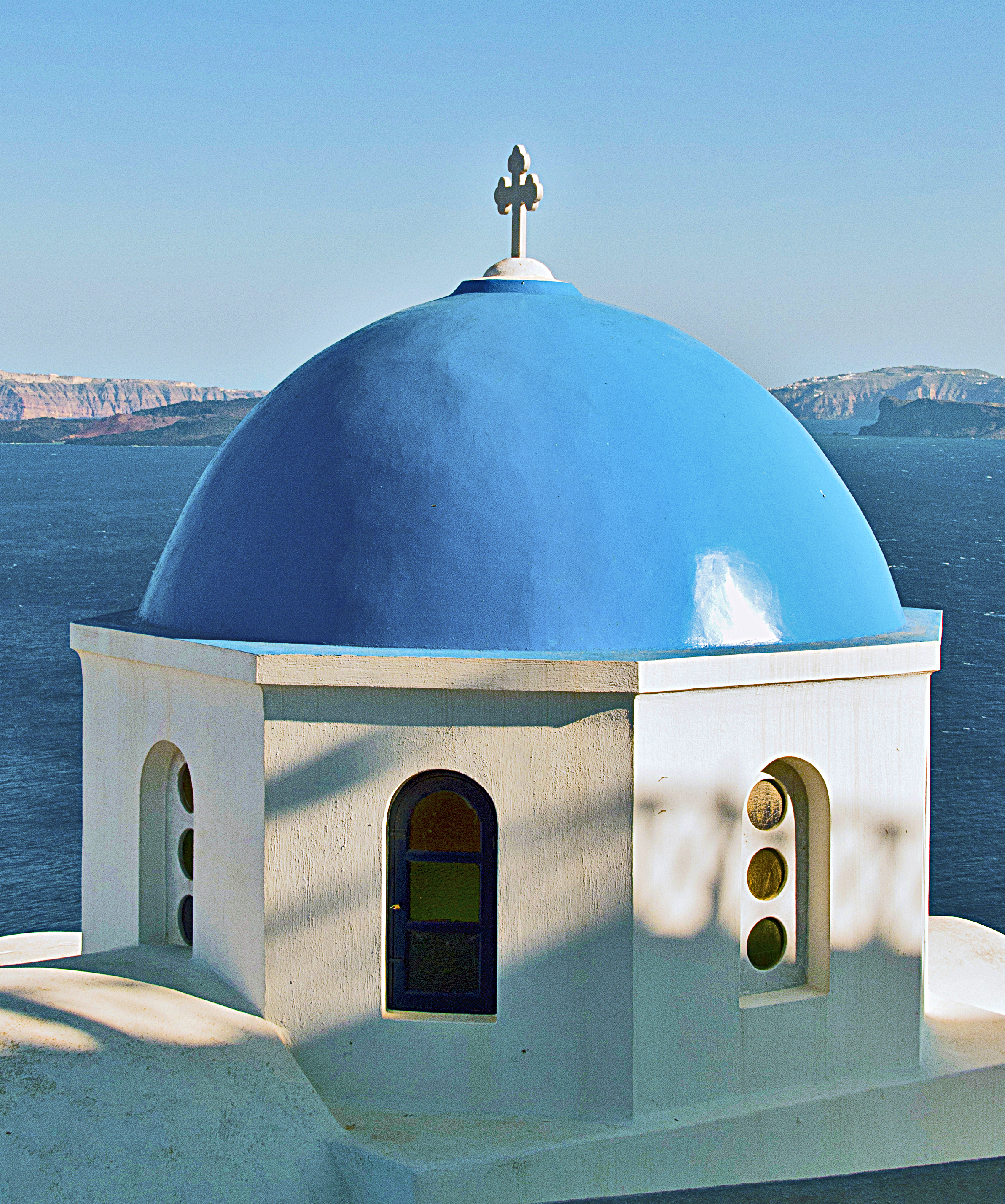 The blue and white paint churches are trademark and unique construction of Oia, Santorini. This Greek Island is a small, circular archipelago of volcanic islands located in the southern Aegean Sea, about 200 km southeast from Greece's mainland.